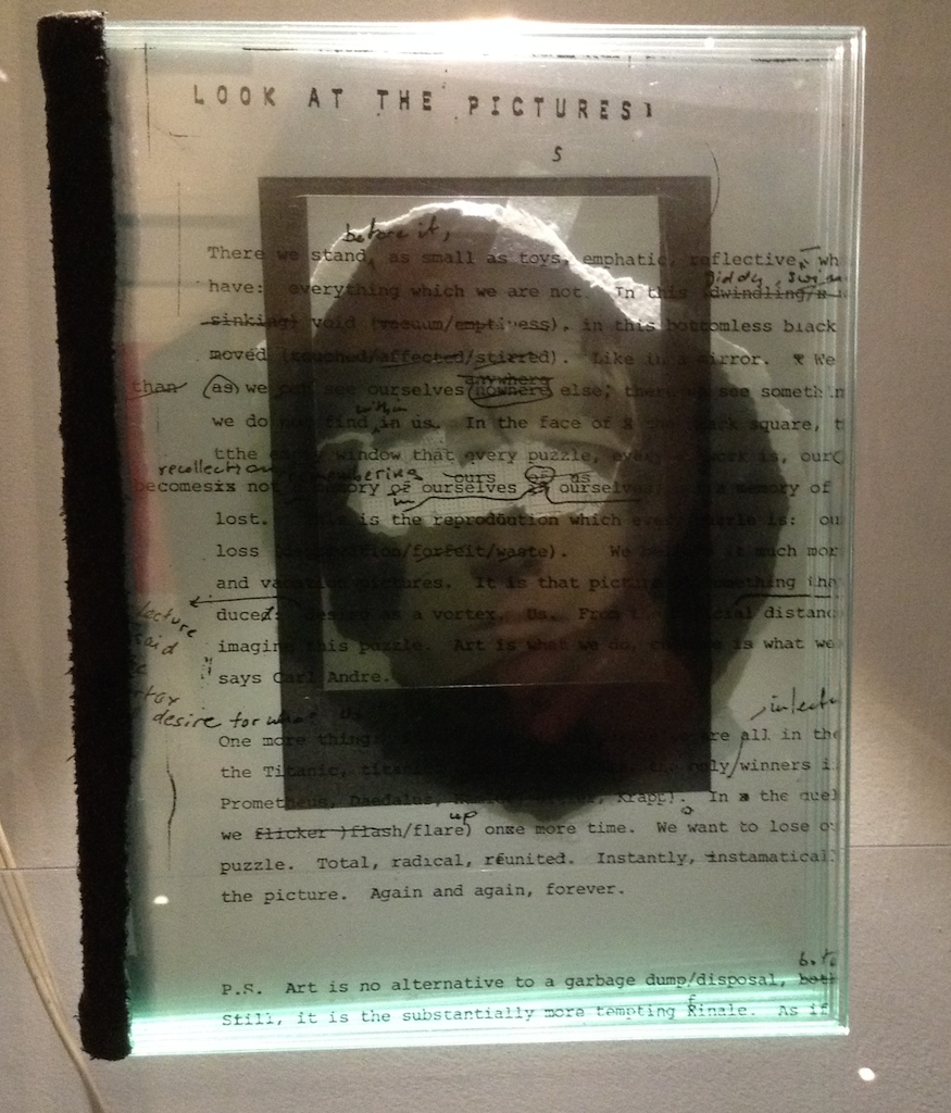 Glass book sculpture (glass, leather, photo-fragments), 2002